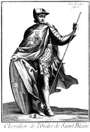 Engraving, 18th century, with a knight of the Order of Saint Blaise, with an hypothetical habit